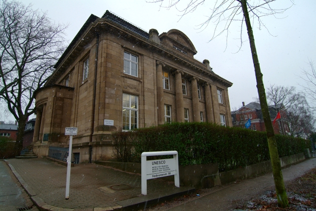 UNESCO Institute for Lifelong Learning - Main entrance View from Feldbrunnenstrasse, Hamburg, Germany